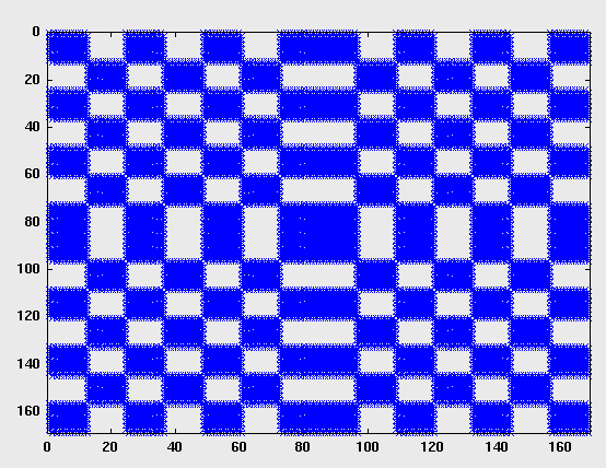 A 168x168 square Block Matrix with non-zero elements illustrated by blue regions, and zero elements are grayed.